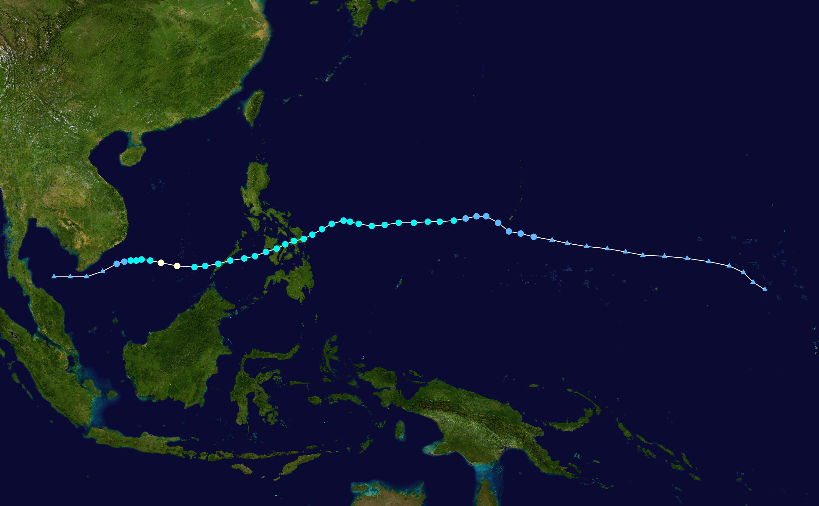 Track map of Typhoon Nina of the 1968 Pacific typhoon season. The points show the location of the storm at 6-hour intervals. The colour represents the storm's maximum sustained wind speeds as classified in the Saffir–Simpson hurricane wind scale (see below), and the shape of the data points represent the nature of the storm, according to the legend below. Saffir–Simpson hurricane wind scale Tropical depression≤38 mph≤62 km/h Category 3111–129 mph178–208 km/h Tropical storm39–73 mph63–118 km/h Category 4130–156 mph209–251 km/h Category 174–95 mph119–153 km/h Category 5≥157 mph≥252 km/h Category 296–110 mph154–177 km/h Unknown Storm typeTropical cycloneSubtropical cycloneExtratropical cyclone / Remnant low / Tropical disturbance